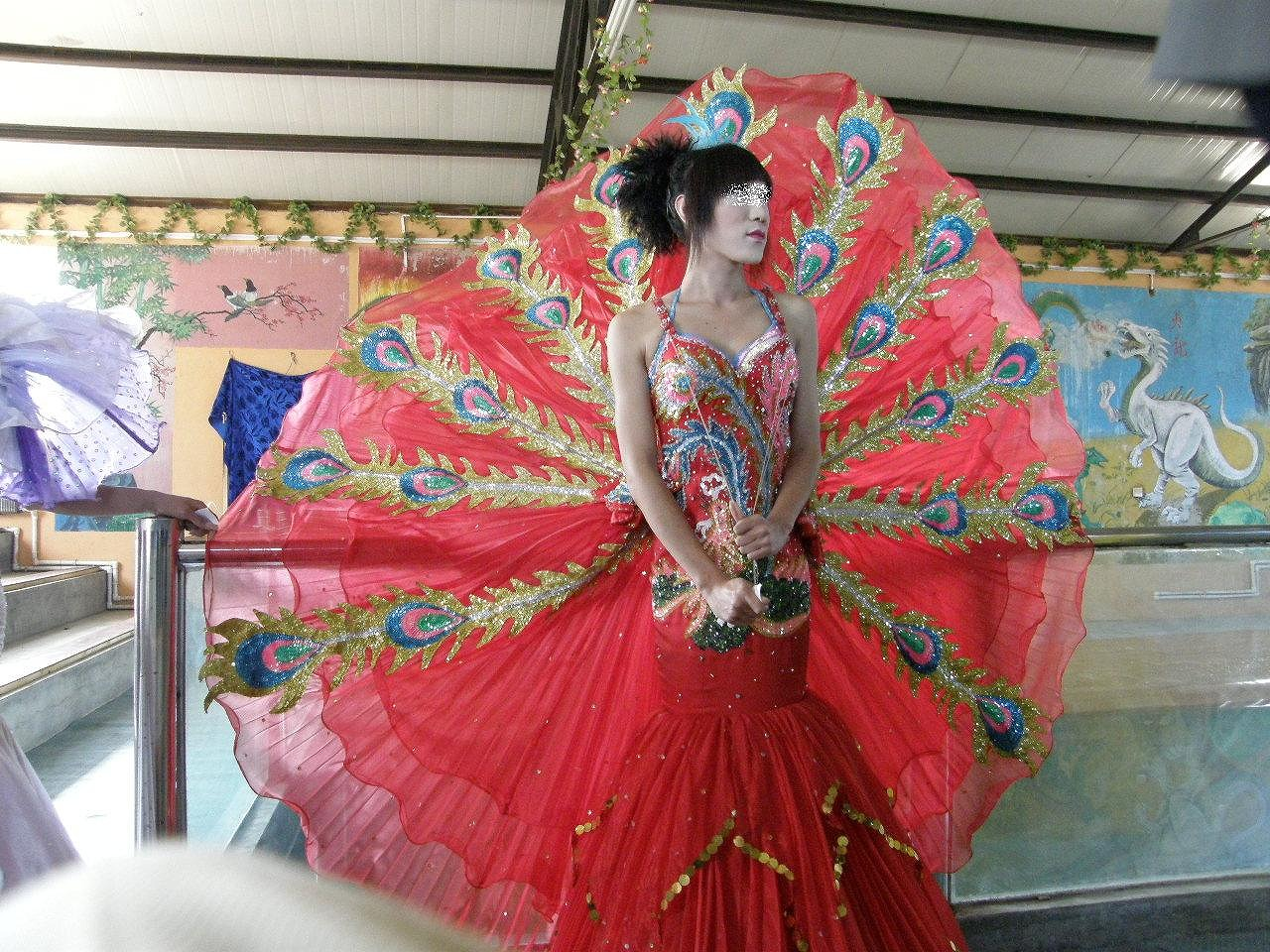 A transsexual dancer in Lüshun, China